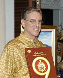 That's my picture, not used anywhere on the WWW, and I give free use to public domain